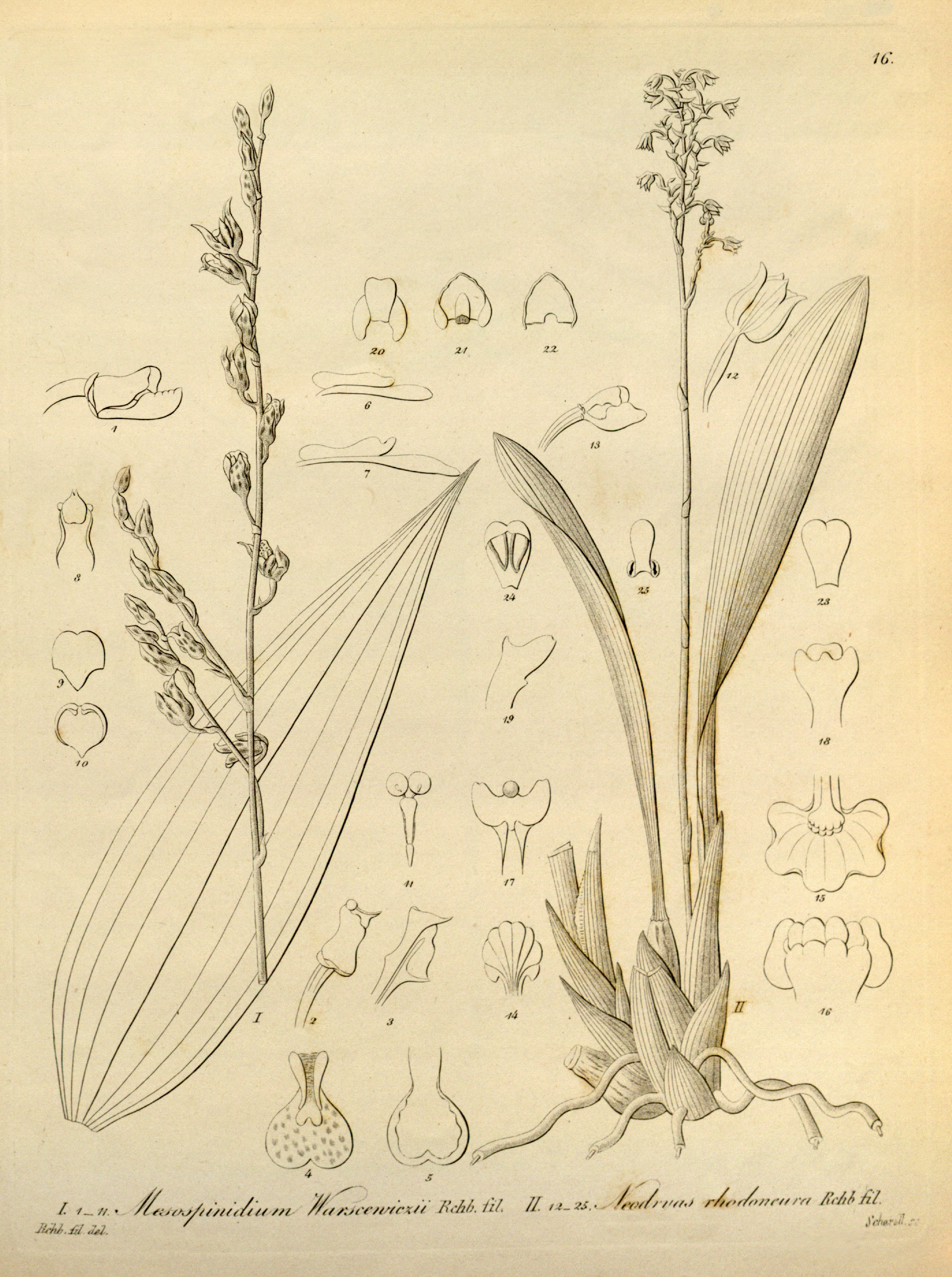 Illustration of: I (1-11) Brassia endresii (as syn. Mesospinidium warscewiczii) II (12-25) Cyrtochilum rhodoneurum (as syn. Neodryas rhodoneura)